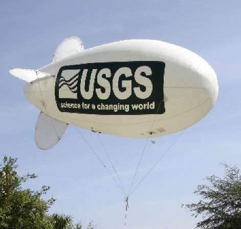 The The United States Geological Survey blimp. Used to carry instruments where humans cannot go (such as above an erupting volcano). The blimp was on display on at the St. Petersburg Annual USGS Open house.